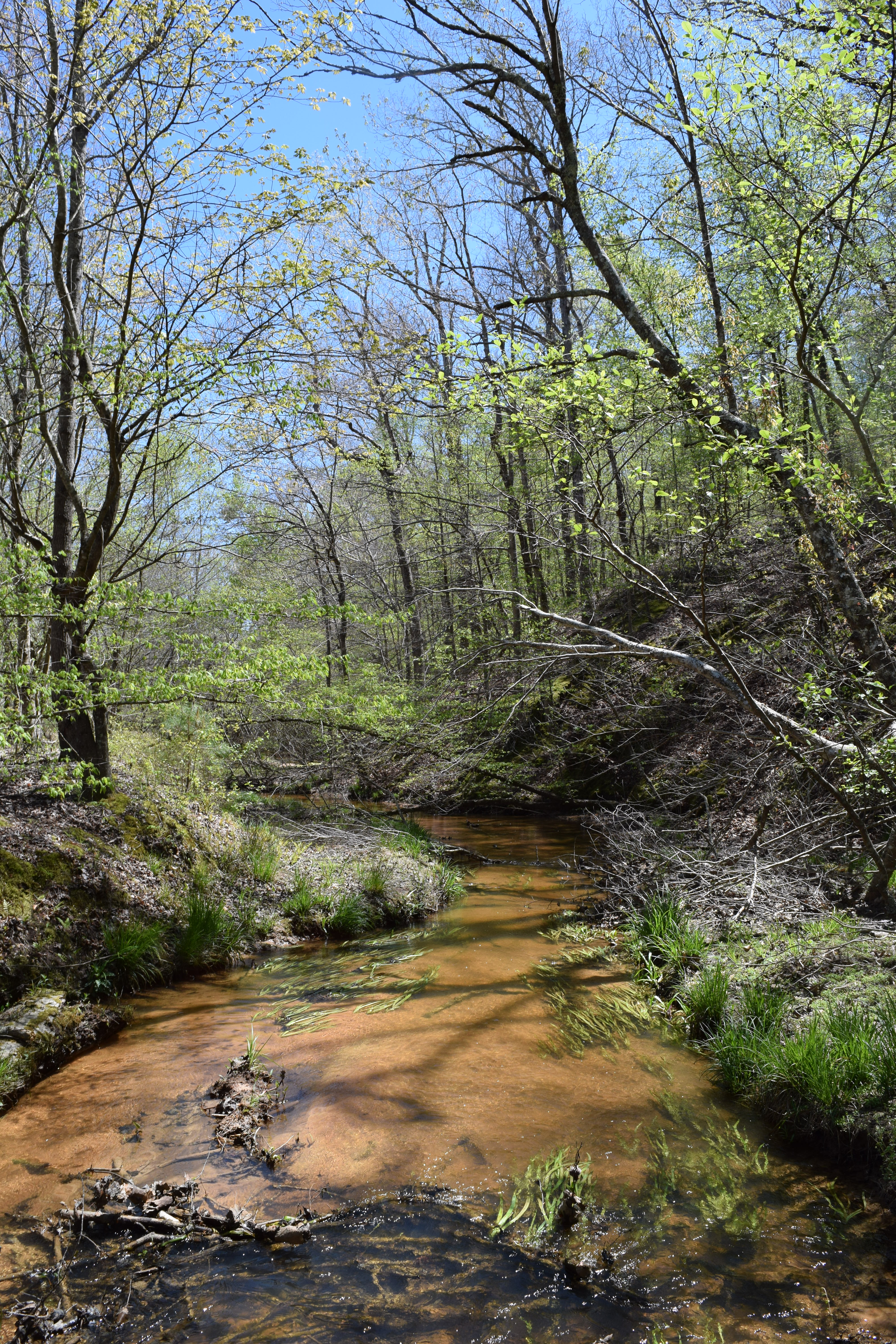 Bay Springs Branch at the University of Mississippi Field Station in April 2016